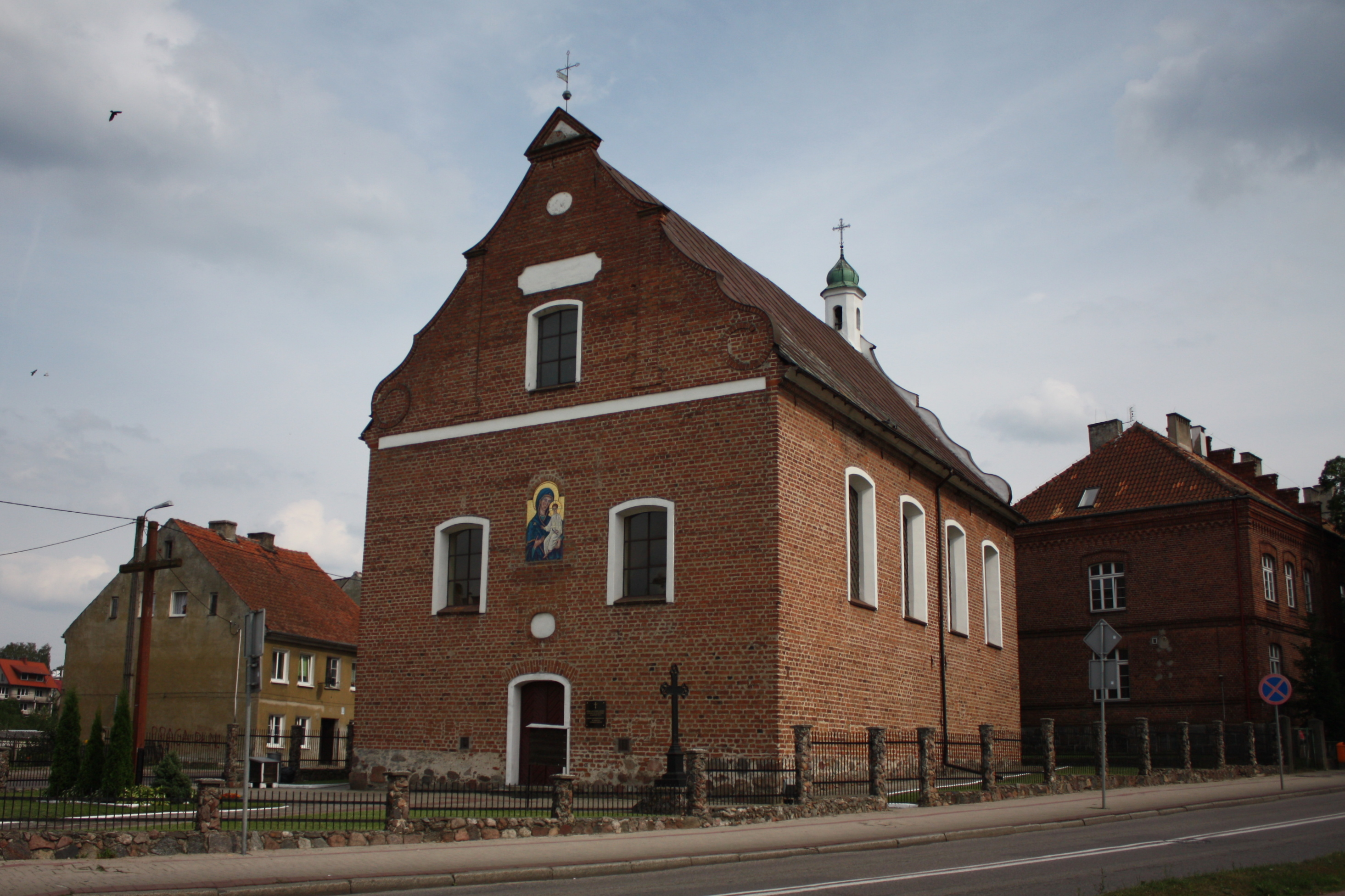 This photo of Warmian-Masurian Voivodeship was taken during Wikiexpedition 2012 set up by Wikimedia Polska Association. You can see all photographs in category Wikiekspedycja 2012. The making of this document was supported by Wikimedia Polska.